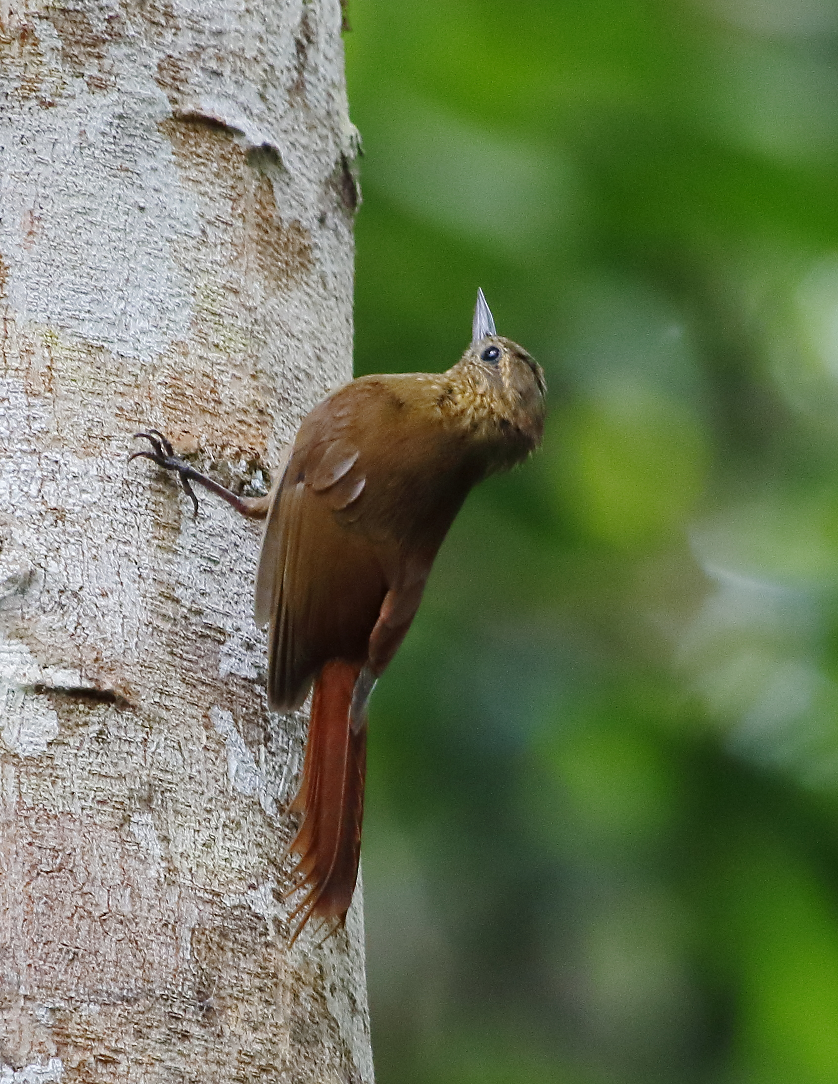 Wedge-billed Woodcreeper (paraensis); Carajas National Forest, Pará, Brazil